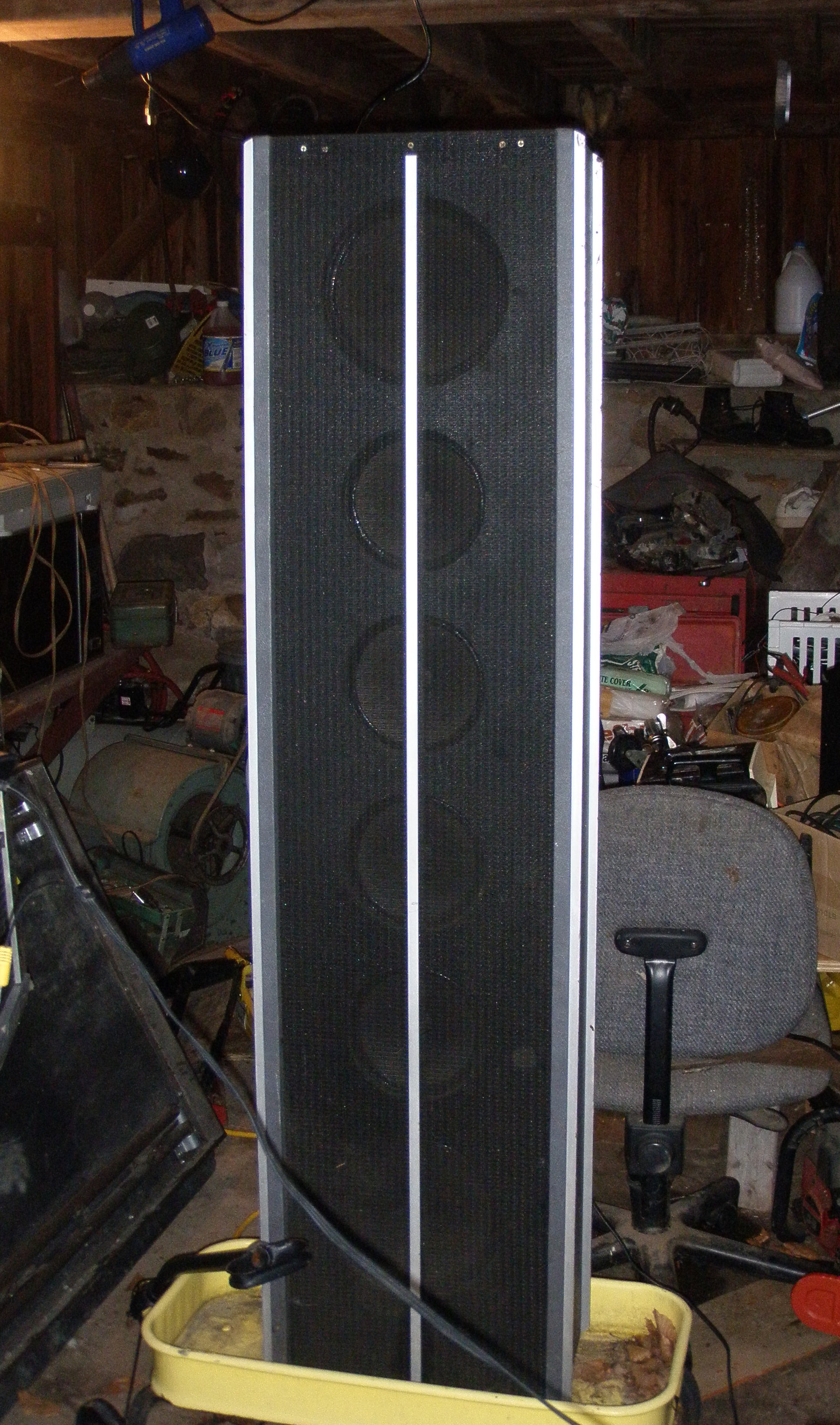 Shure Vocal Master PA speaker